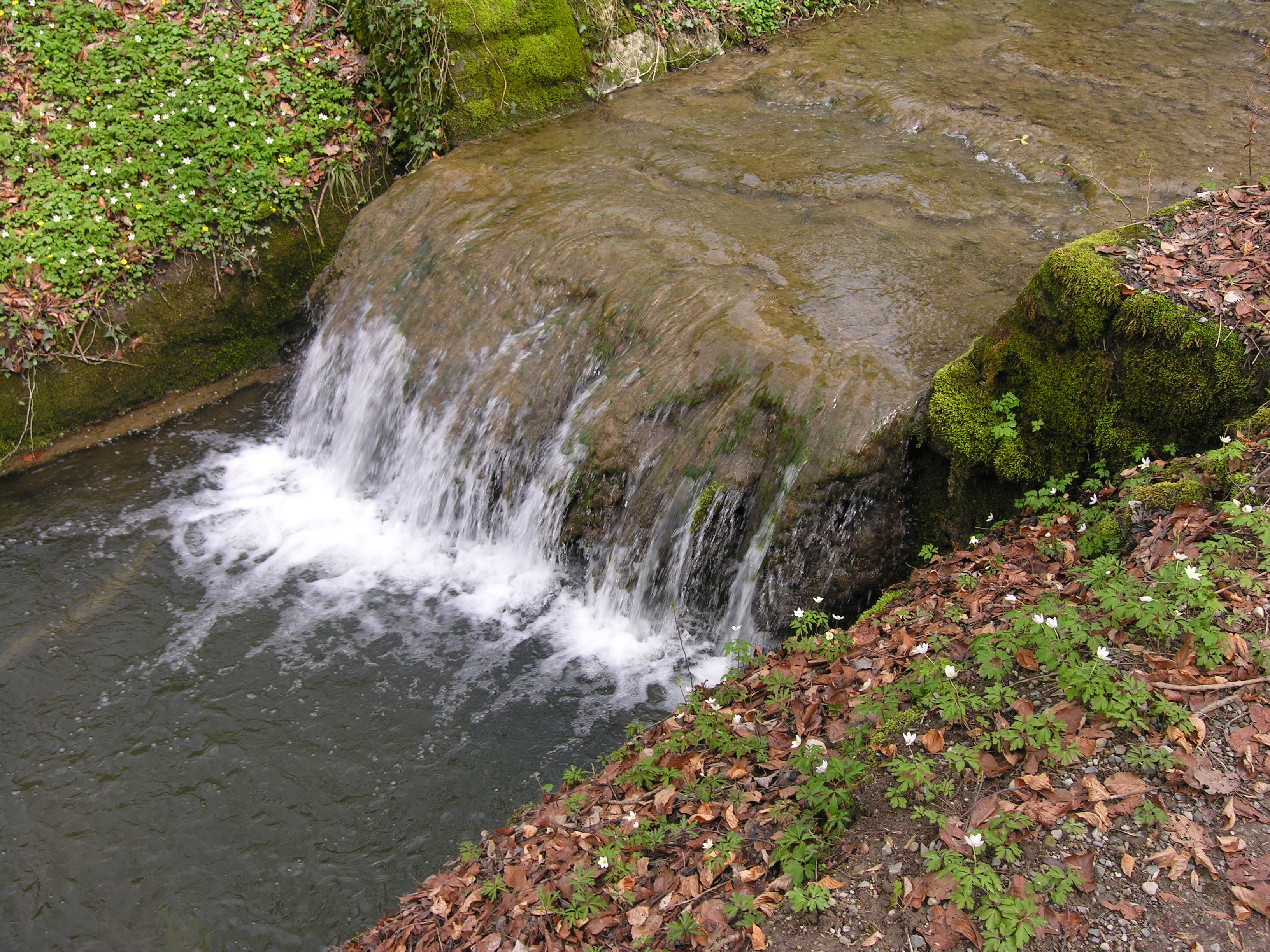 Water flow in Forch-Küsnacht, Canton of Zürich, Switzerland. In karst water dissoluted minerals, mostly carbonate minerals, are chemically precipitated to solid Calcium carbonates. The step, man made to regulate the current, is superimposed by the deposits.